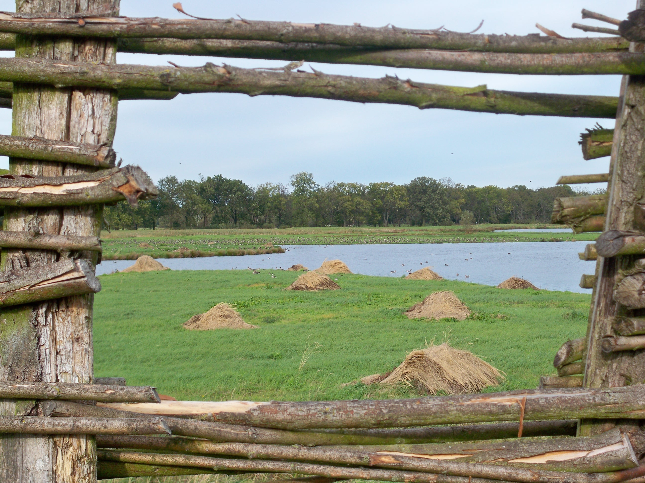 Piplockenburg, Calvörde, Saxony-Anhalt, man-made wetland in Drömling, with observation window